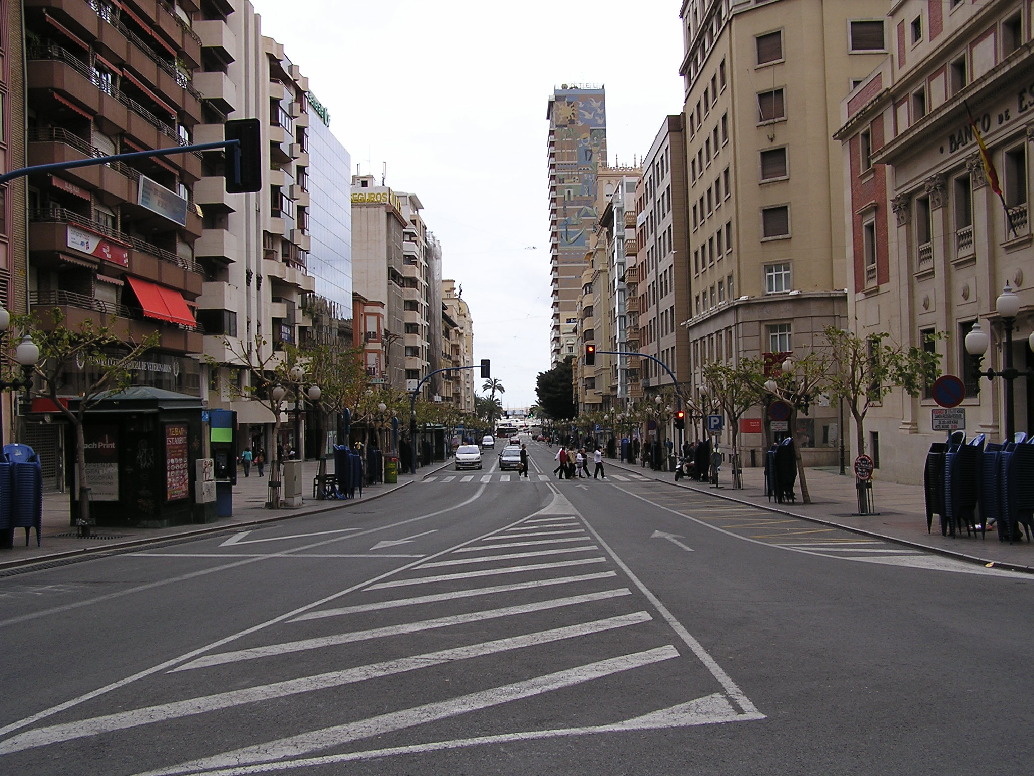 Alicante, La Rambla (view toward the sea)